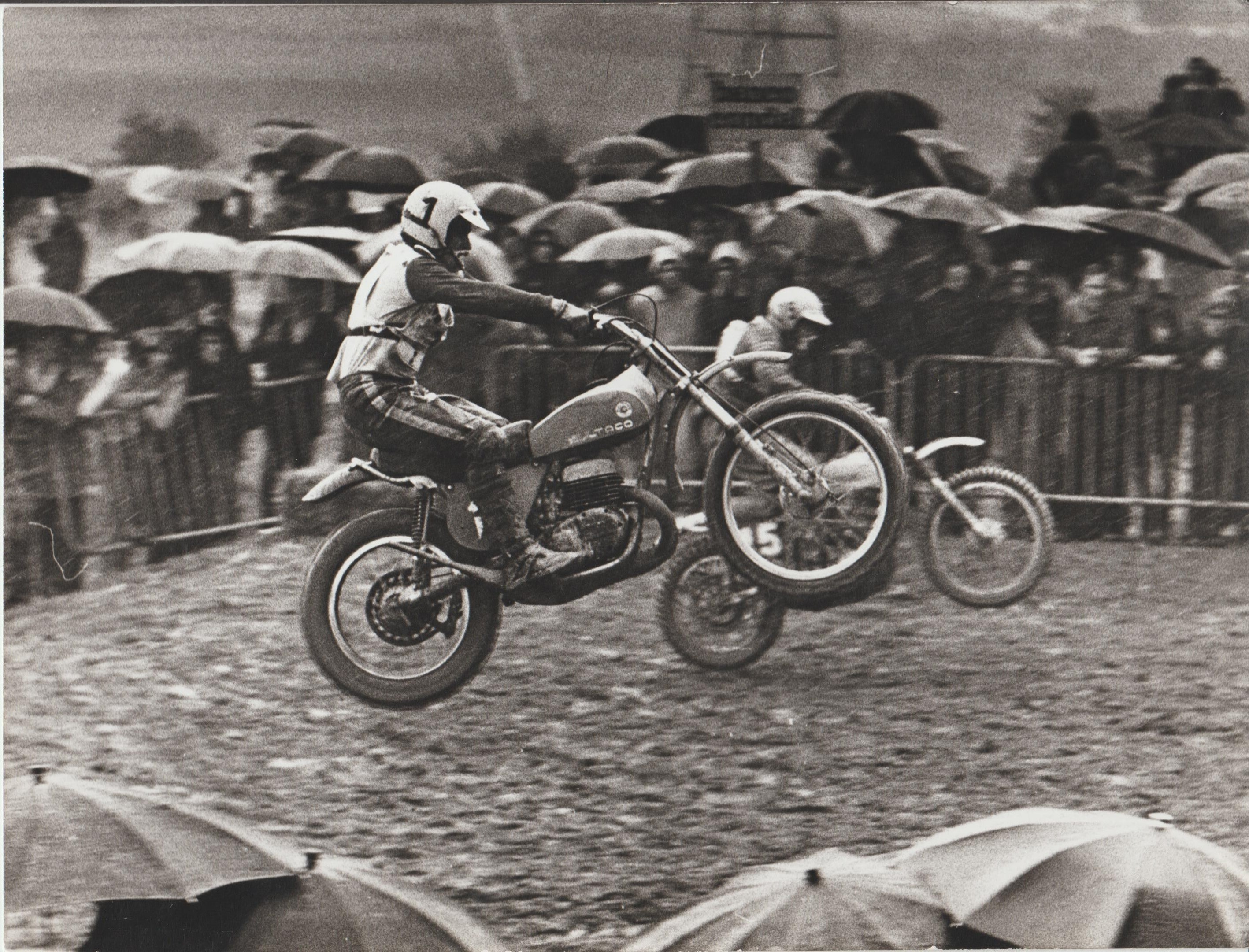 Domingo Gris (#1) at 1973 Esplugues Motocross